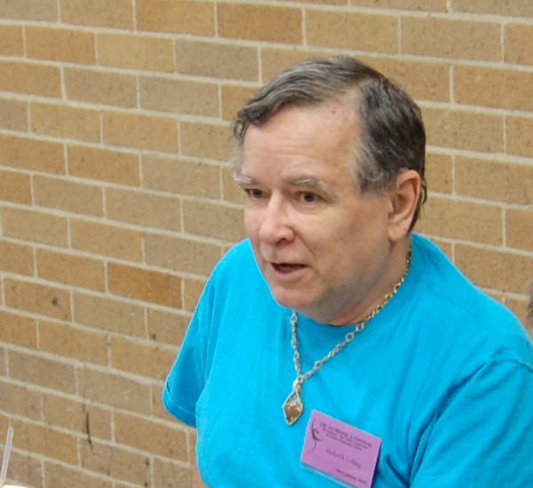 Closeup of Michael R. Collings at Life, the Universe, & Everything 2008 at Brigham Young University in Provo, Utah.